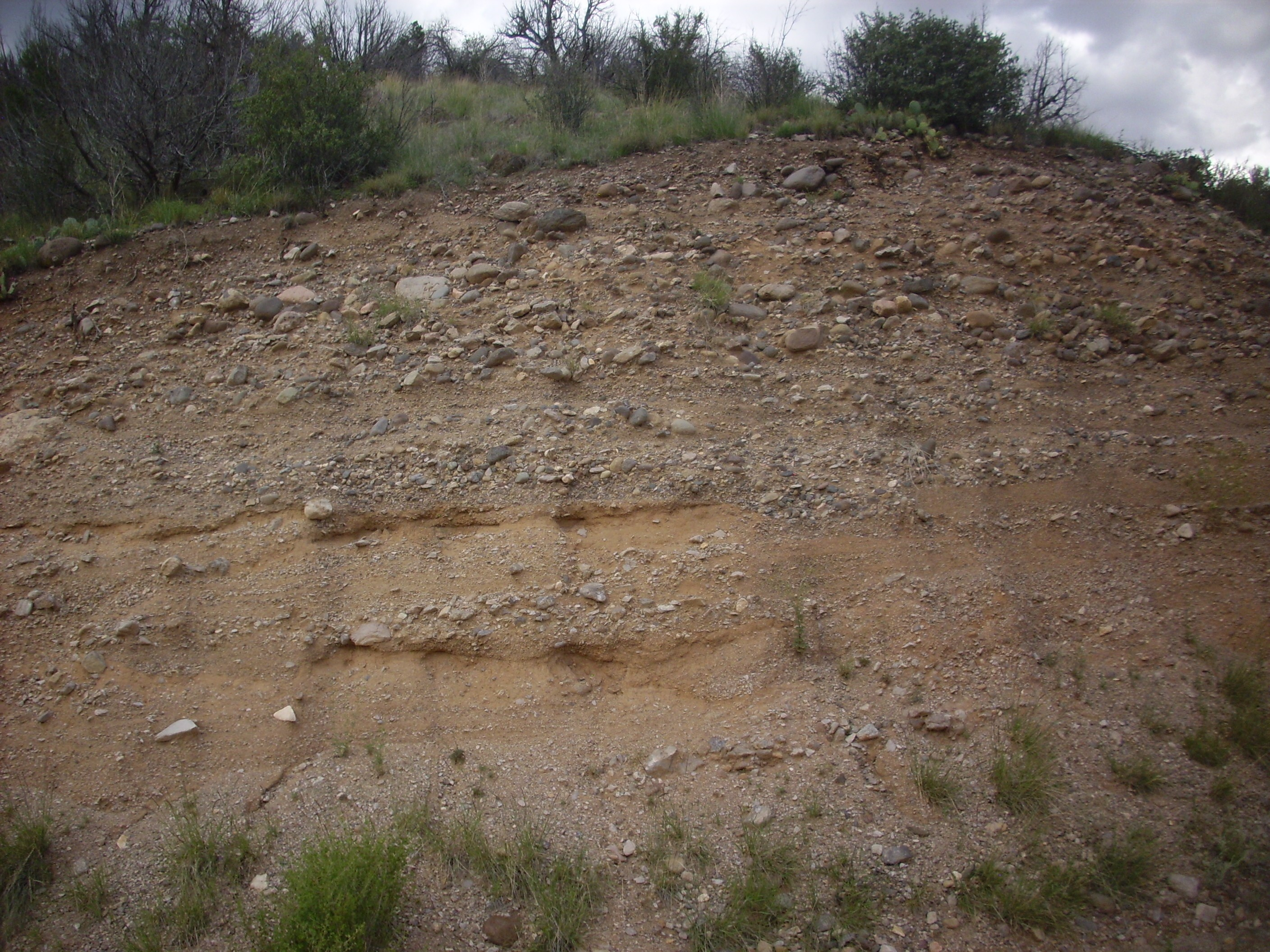 This image shows a road cut on the road to the Veterans Memorial Overlook, Kasha-Katuwe Tent Rocks National Monument, New Mexico, USA. The exposed sediments are part of the Cochiti Formation, with the Lookout Park Gravel Member towards the top of the cut.